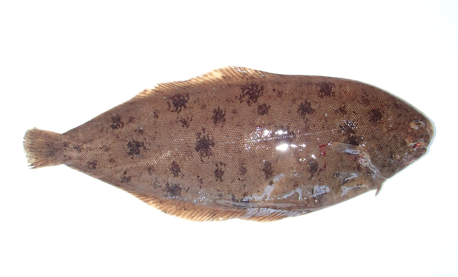 A solea solea on white background